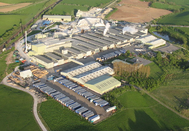 Kirkby Thore Gypsum Plant, Cumbria